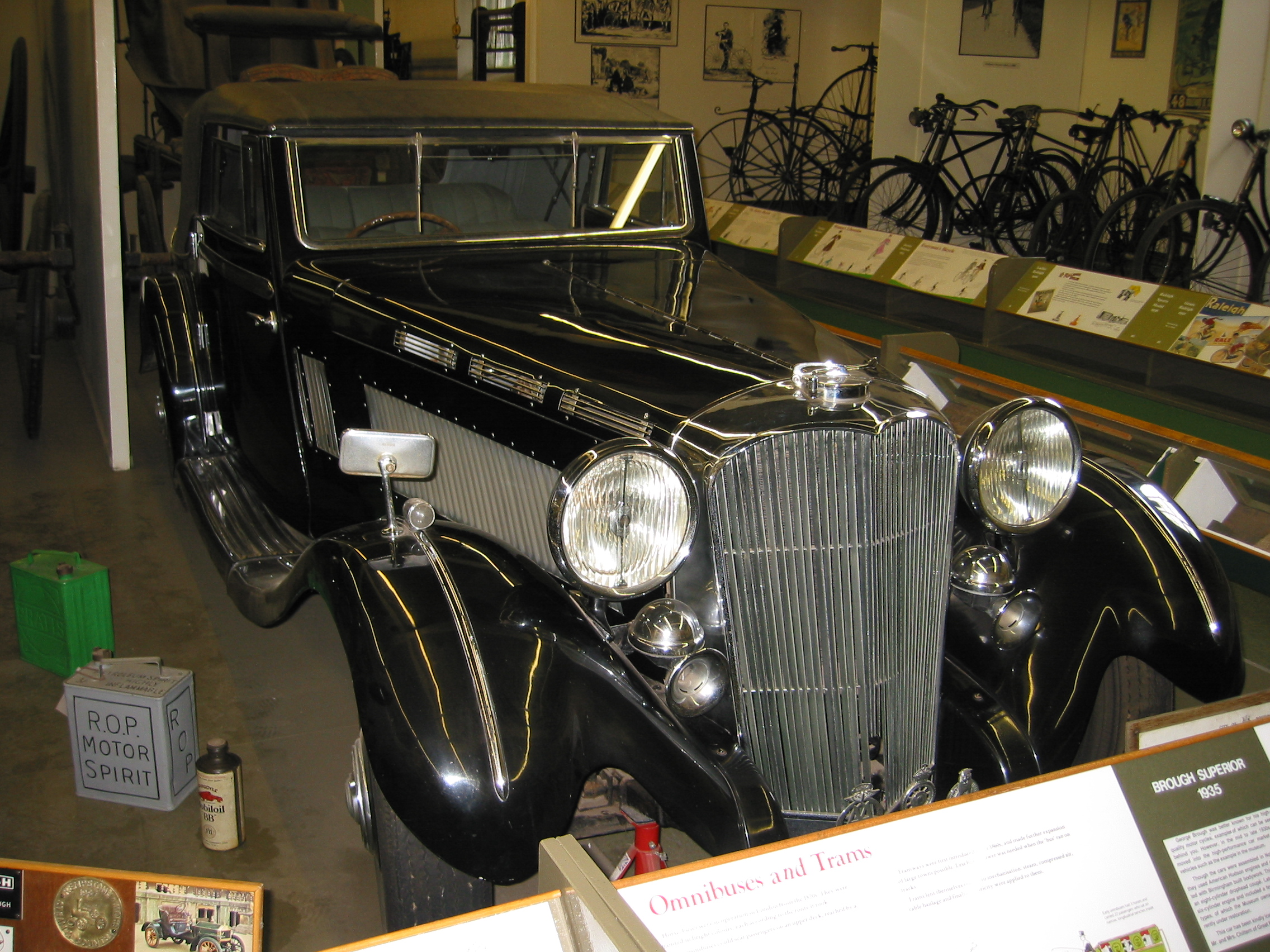 Brough Superior 1935